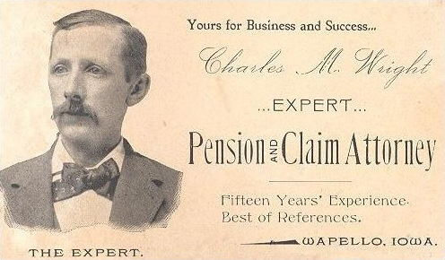 Civil War Pensions: business card of one of the many attorneys specializing in pension claims.